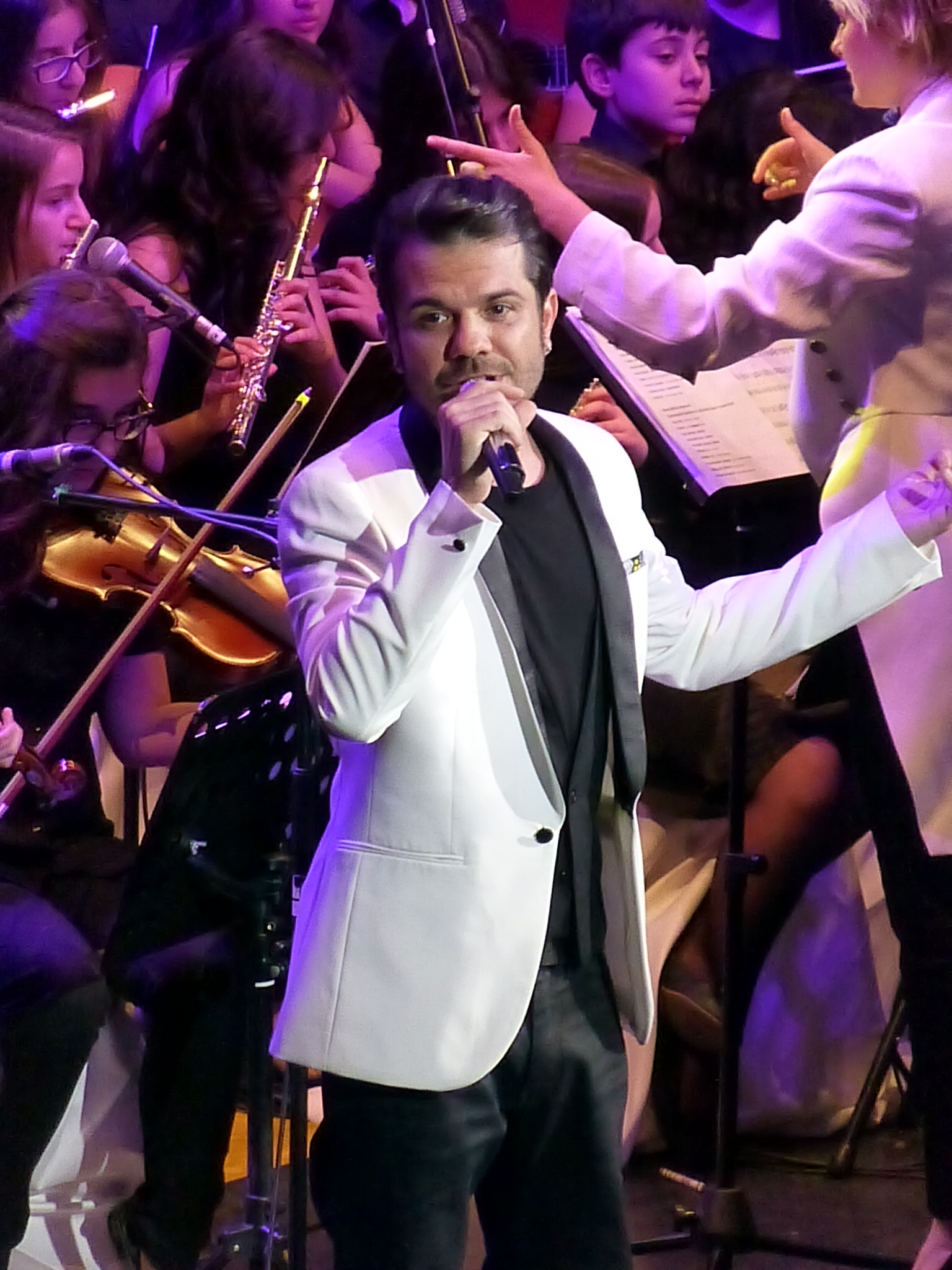 Kenan Doğulu